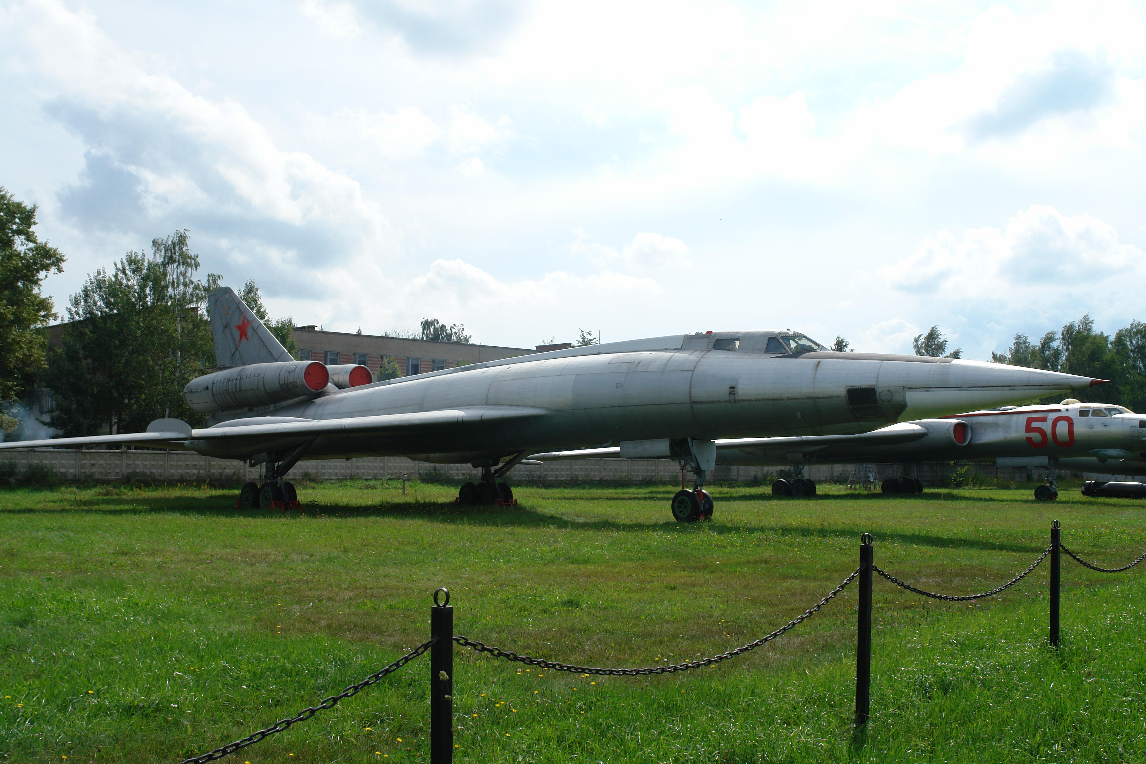 Tupolev Tu-22 (Blinder) at Monino Central Air Force Museum (Moscow)